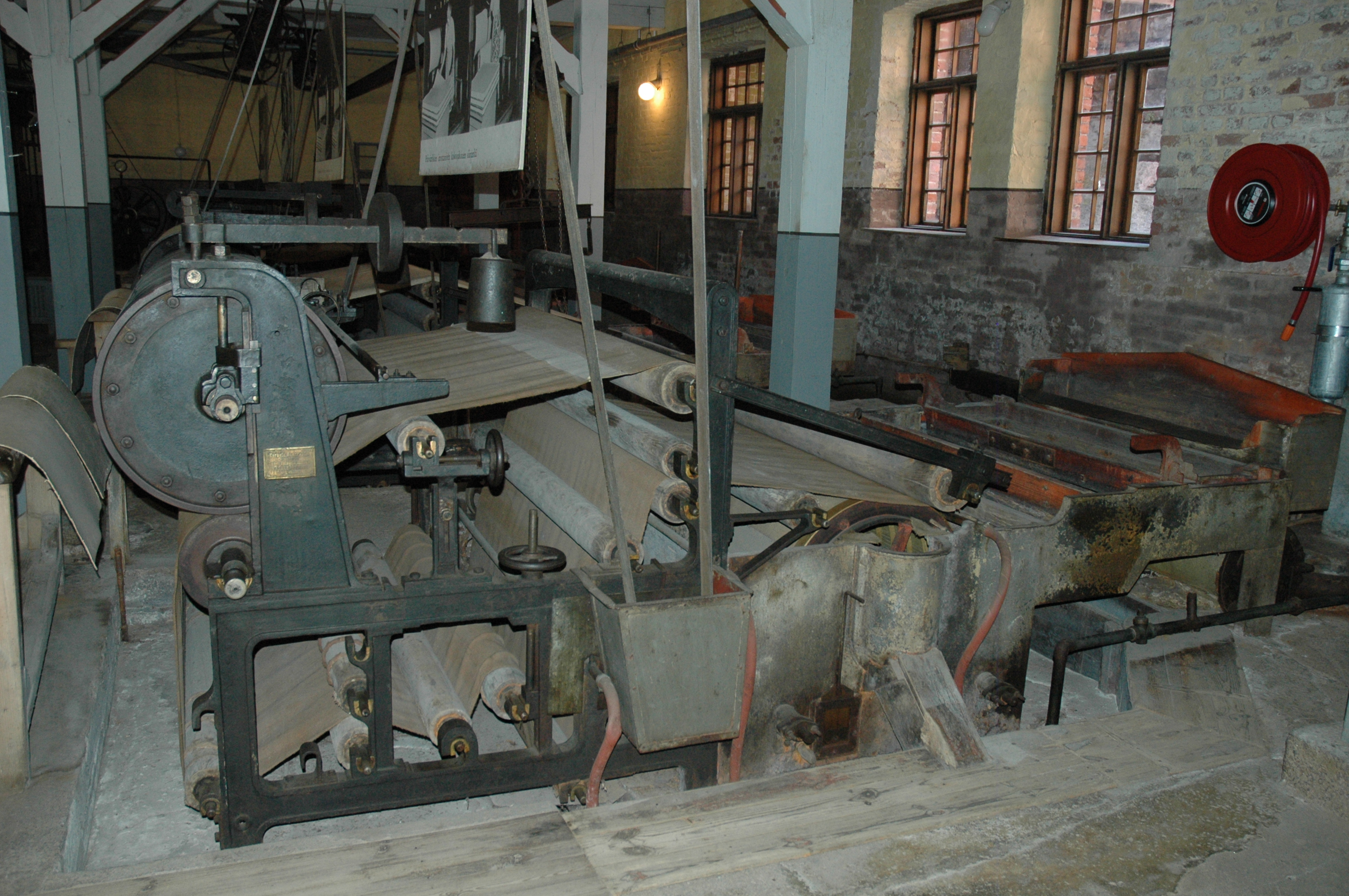 Wet lap machine the historical Verla groundwood and board mill (Finland)